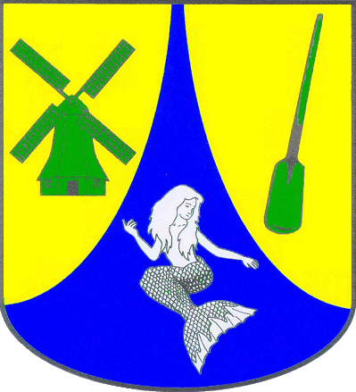 Coat of arms of the municipality Westerdeichstrich in Schleswig-Holstein, Germany.